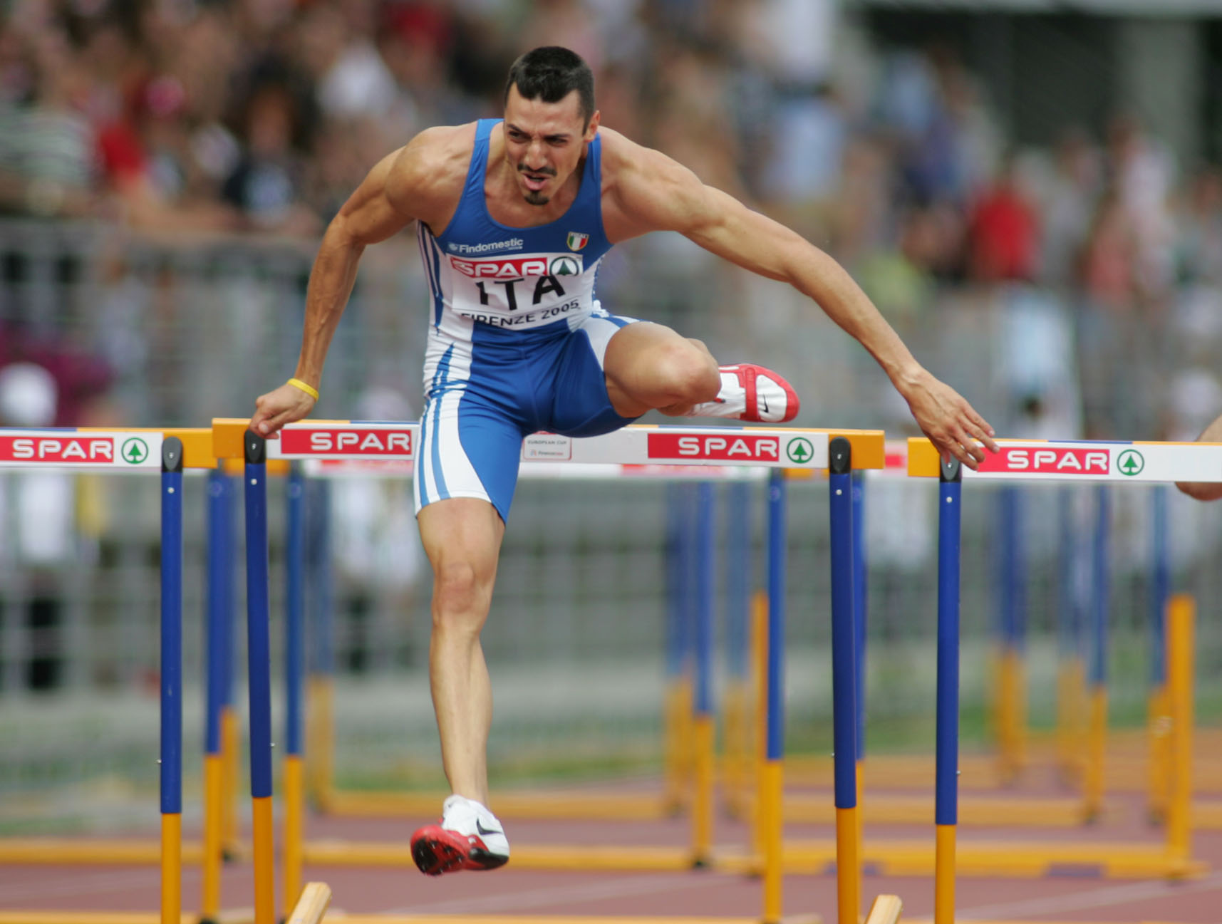 Coppa Europa 2005